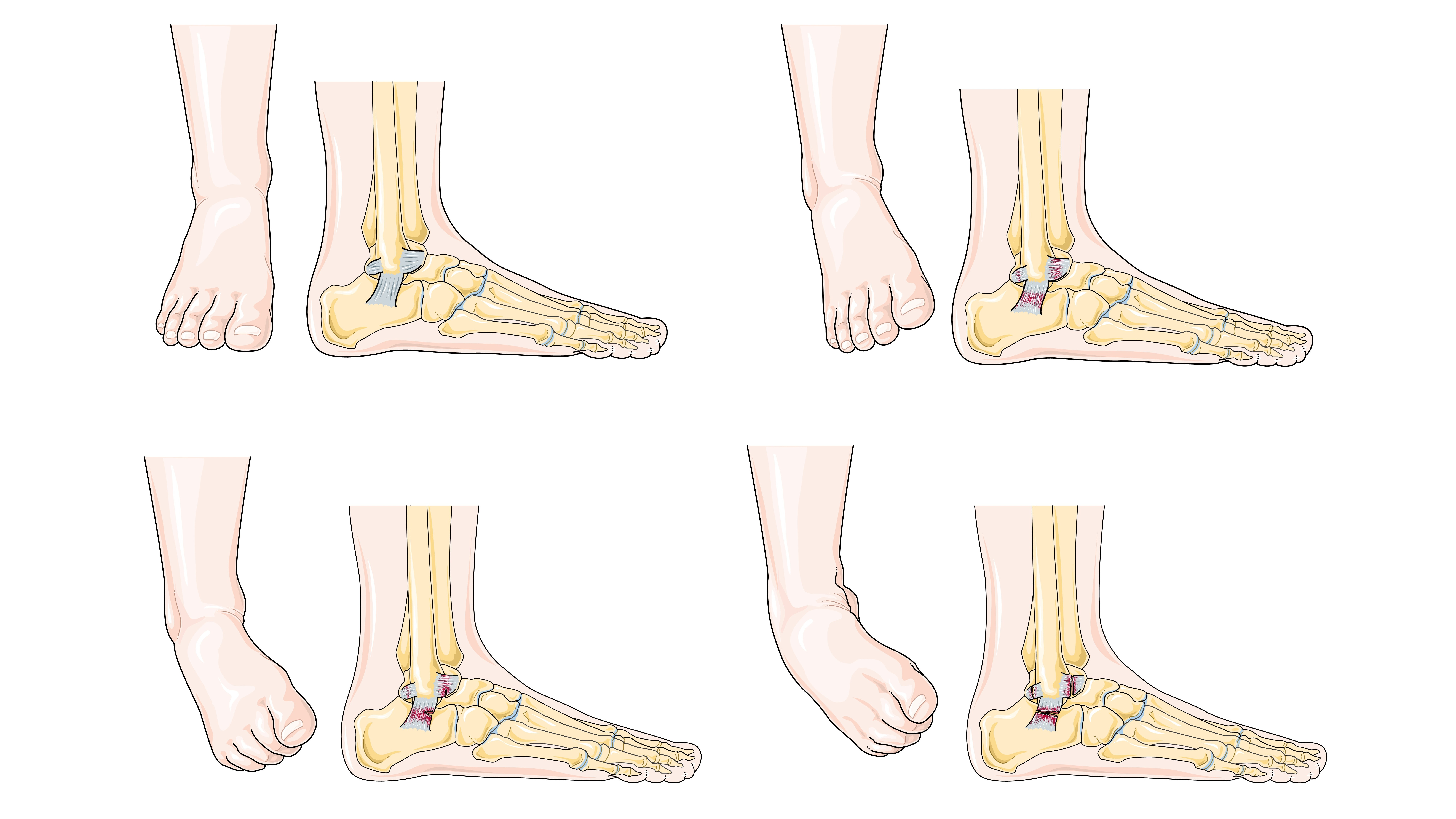 Skeleton and bones - Ankle sprain